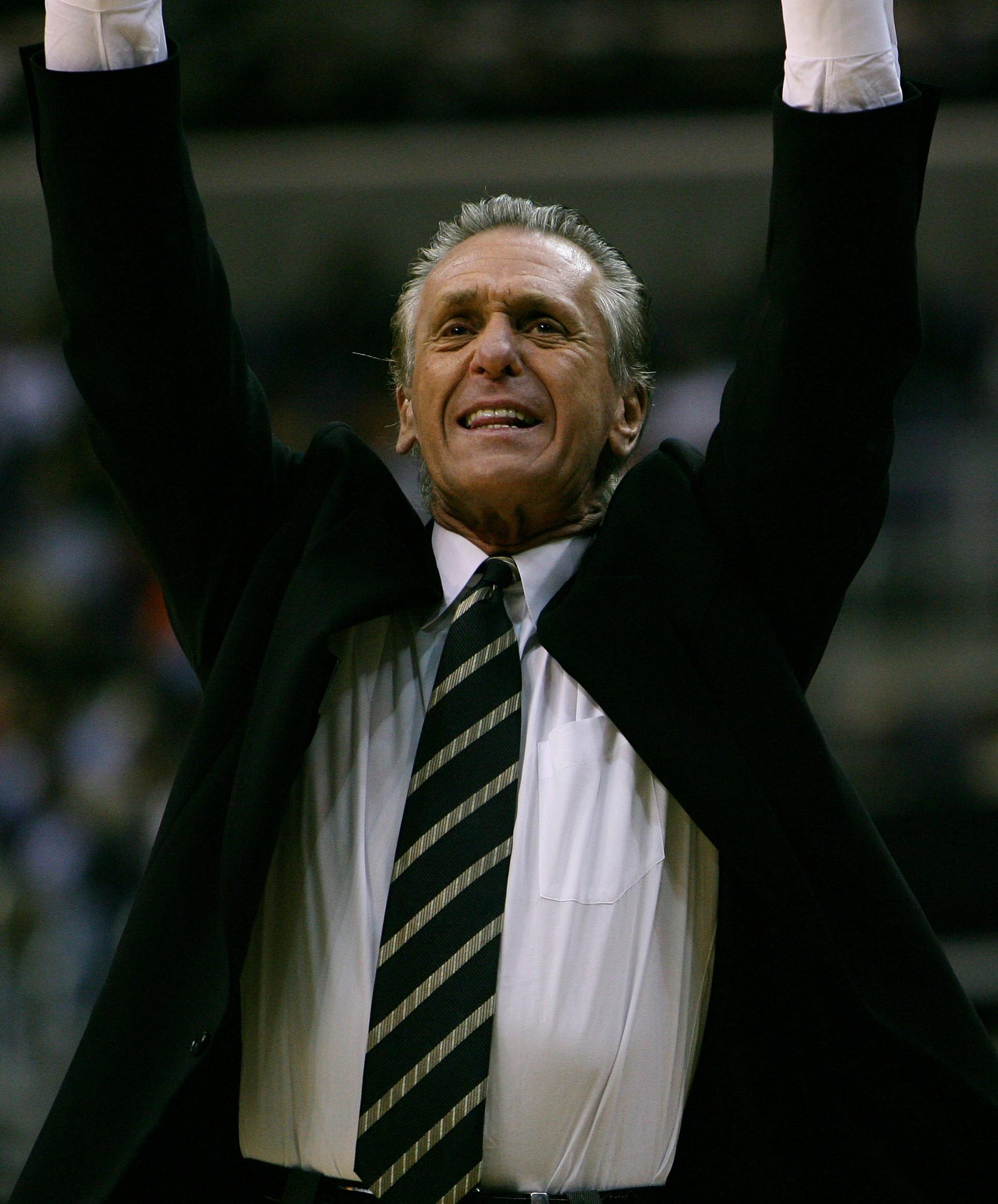 Pat Riley trying to get his players' attention.